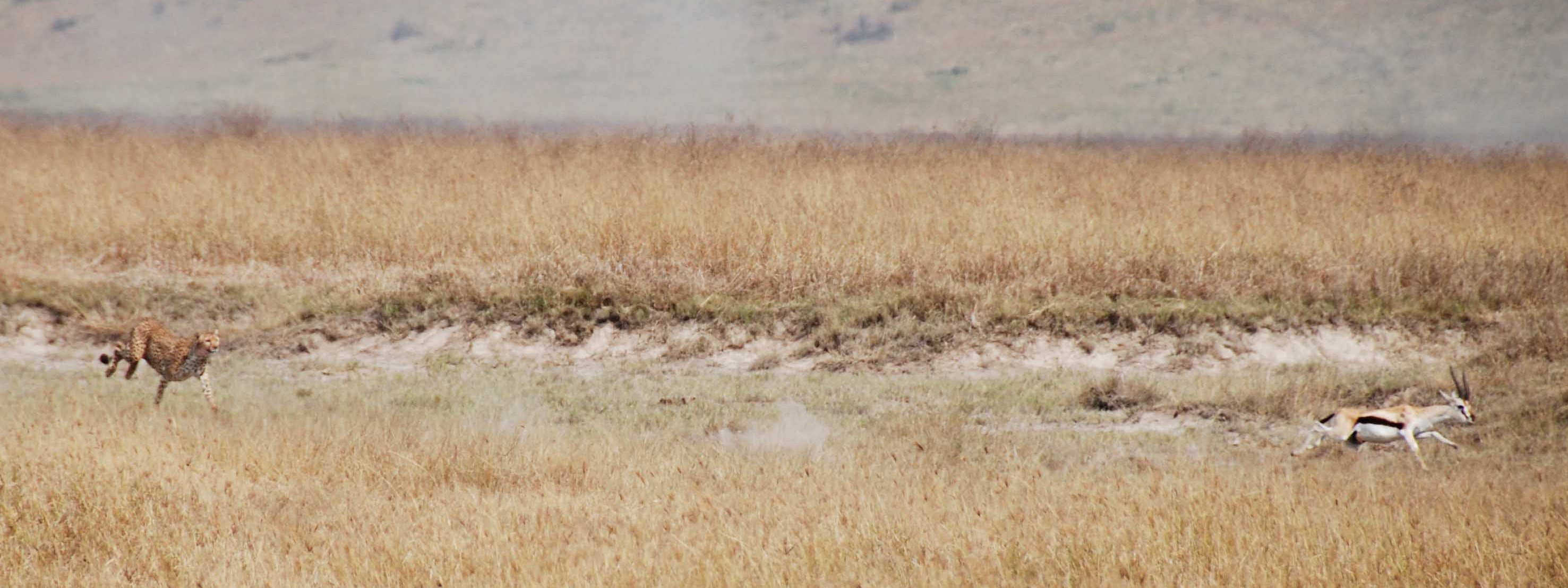 Cheetah (Acinonyx jubatus) in pursuit of a Thompson's gazelle (Gazella thomsonii ). Ngorongoro Crater, Tanzania. Photo by Lee R. Berger. The cheetah uses its camouflage and speed to catch its prey.